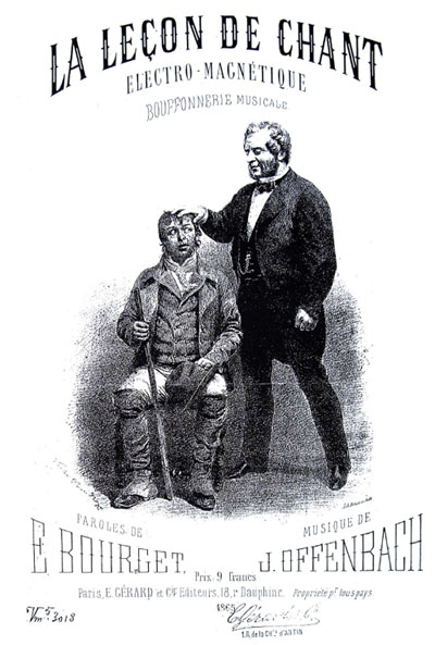 La Lecon de chant éléctromagnétique, vocal score, title page, 1863